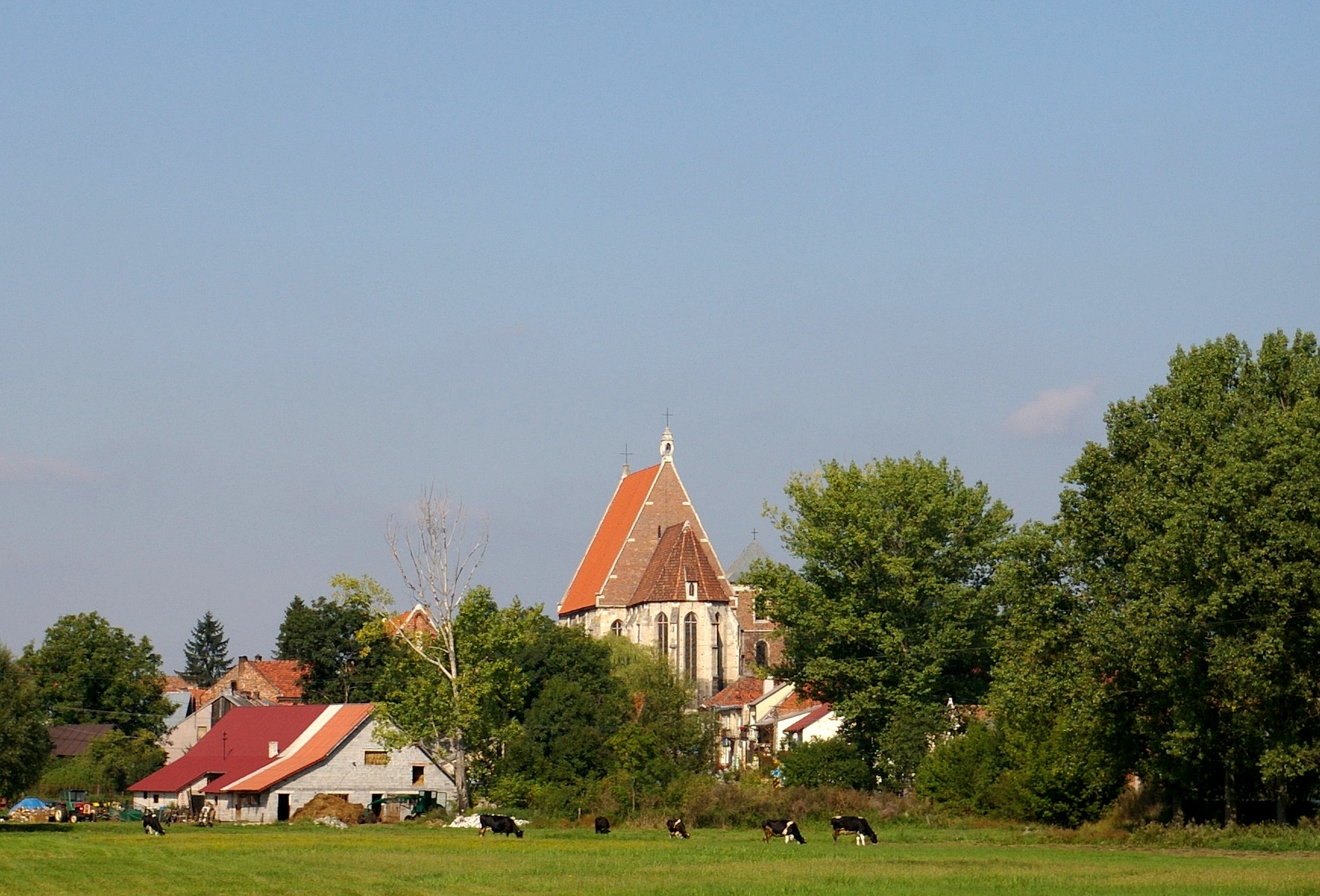 Wiślica, overall view from east